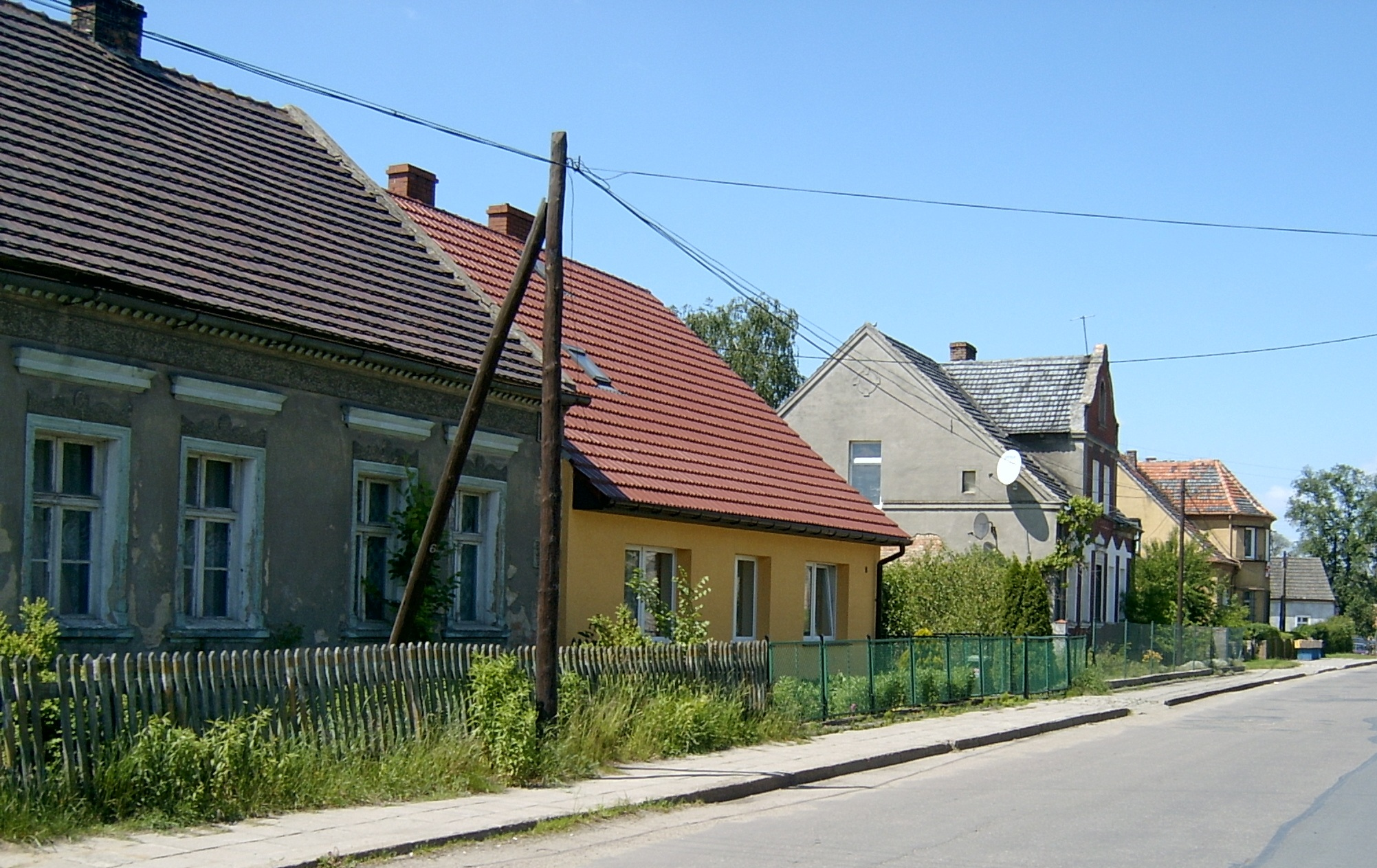 Kunowice in Poland, buildings in Dworcow street.